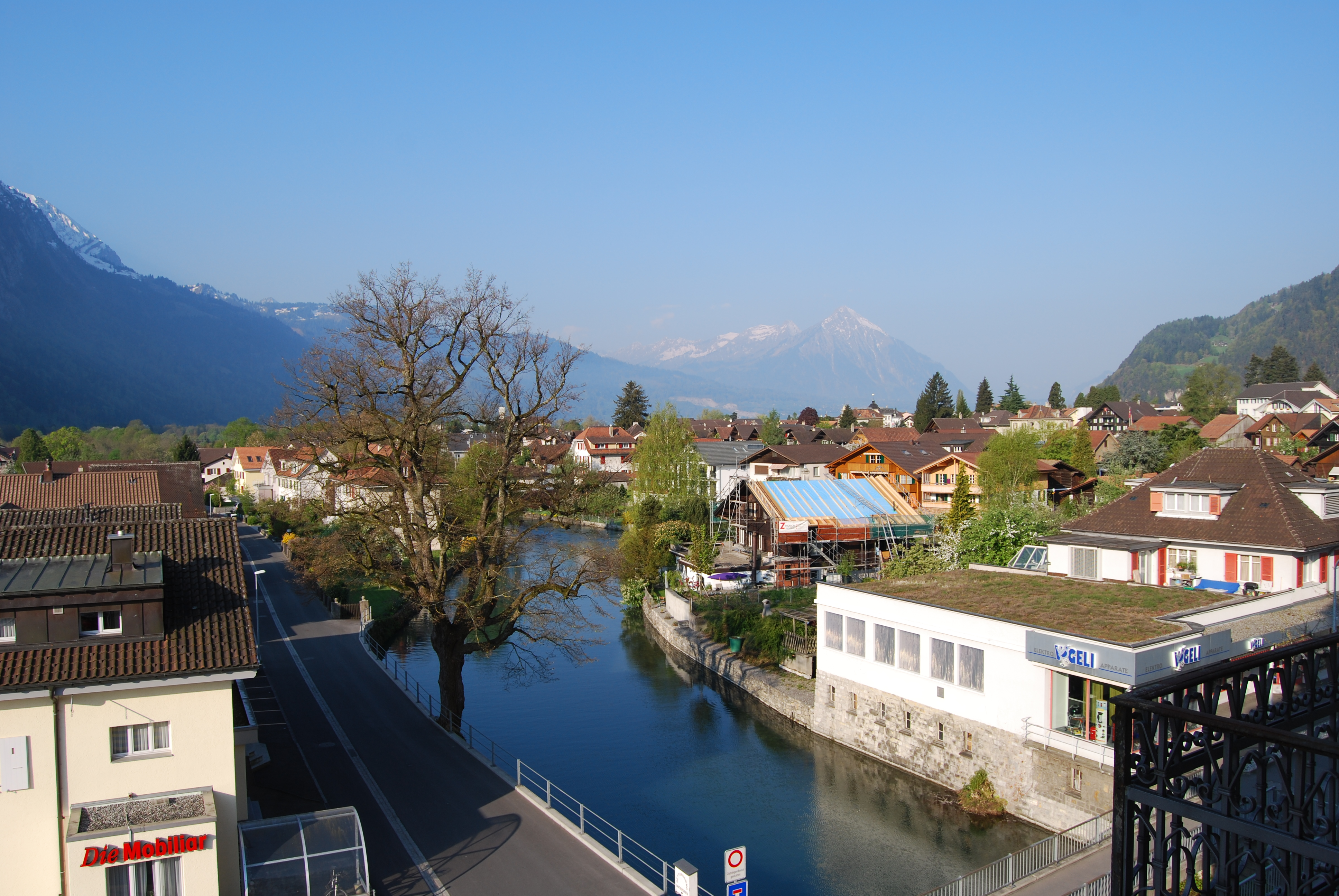 Unterseen an Aar (sight from Hotel Central), canton of Bern, Switzerland